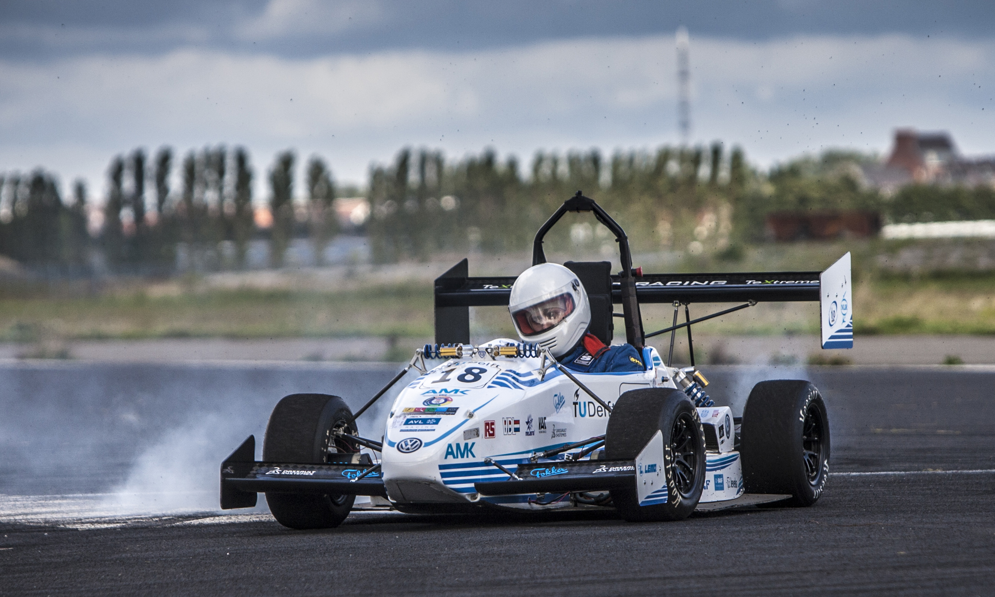 The 13th car of the Formula Student team from Delft: the DUT13.